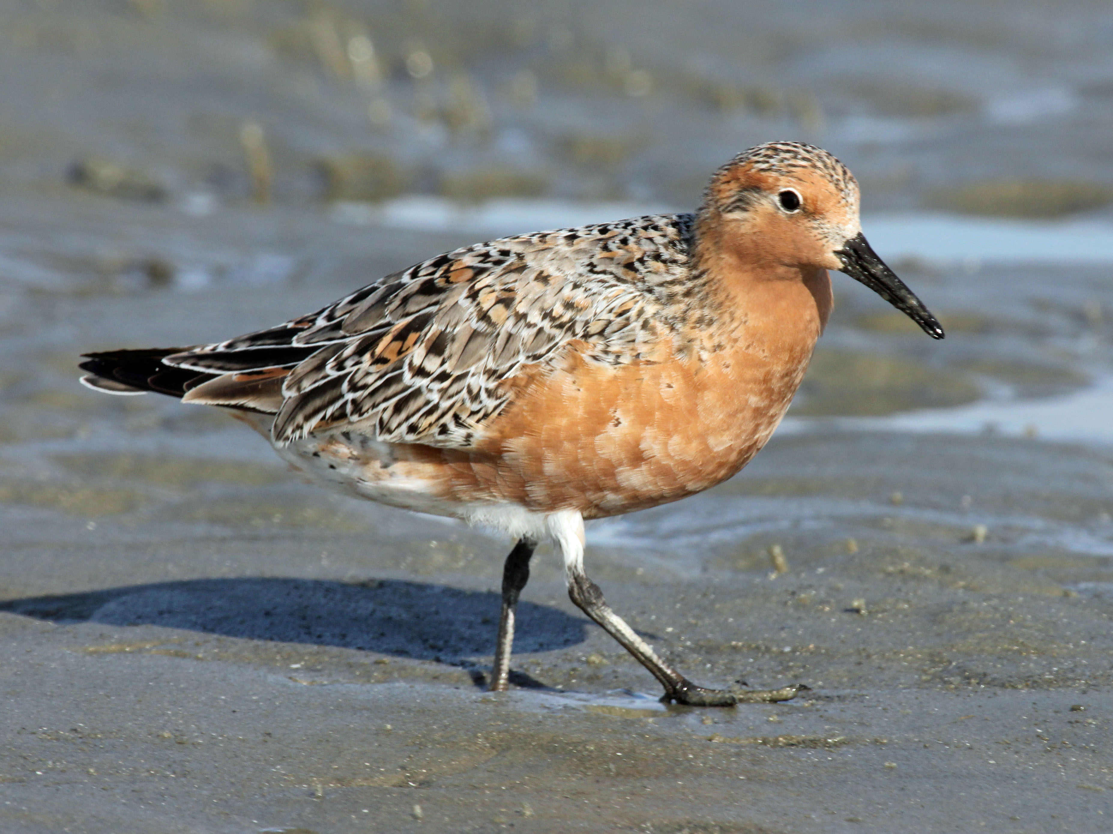 Red Knot (Calidris canutus) - Sunset Beach, North Carolina